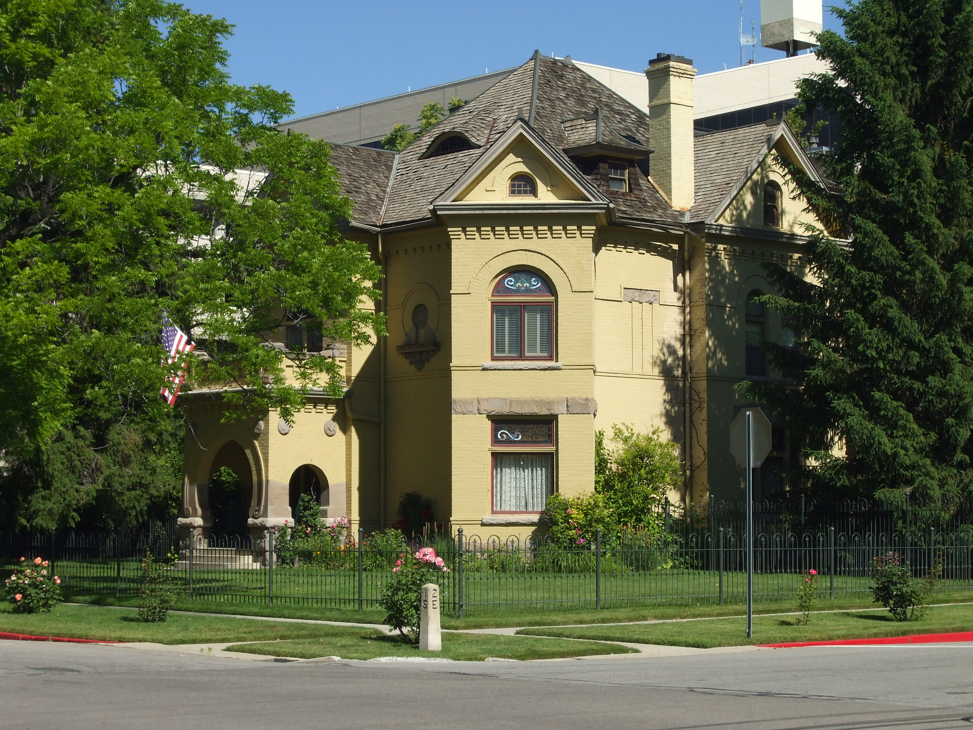 The Reed O. Smoot House, former home of U.S. Senator Reed Smoot, is a National Historic Landmark in Provo, Utah, United States.